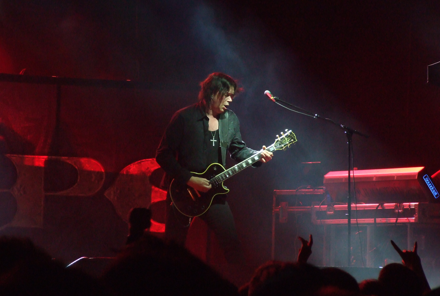 John Norum, guitarist of the Swedish rock band Europe, performing in Festivalna hall, Sofia during their Bag of Bones tour 2012.